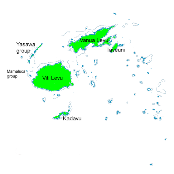 Distribution map of The Fiji Parrotfinch Erythrura pealii.[1] The light blue wavy lines (mostly around islands) represent coral reefs. ↑ Watling, Dick (2003) A Guide to the Birds of Fiji and Western Polynesia, Tulani: Dick Watling, p. 23 ISBN: 9829030040.